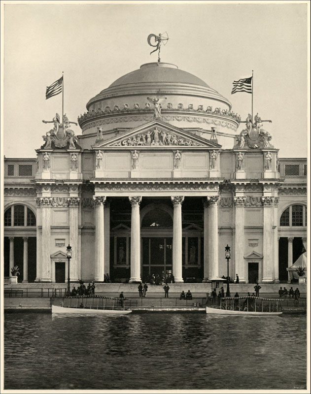 Main North Entrance of Agricultural Building. Large photographic print from The White City (As It Was), photographs by William Henry Jackson. World's Columbian Exposition 1893. Digitial Identifier: GN90799d_JWH_014w World's Columbian Exposition Collection at The Field Museum